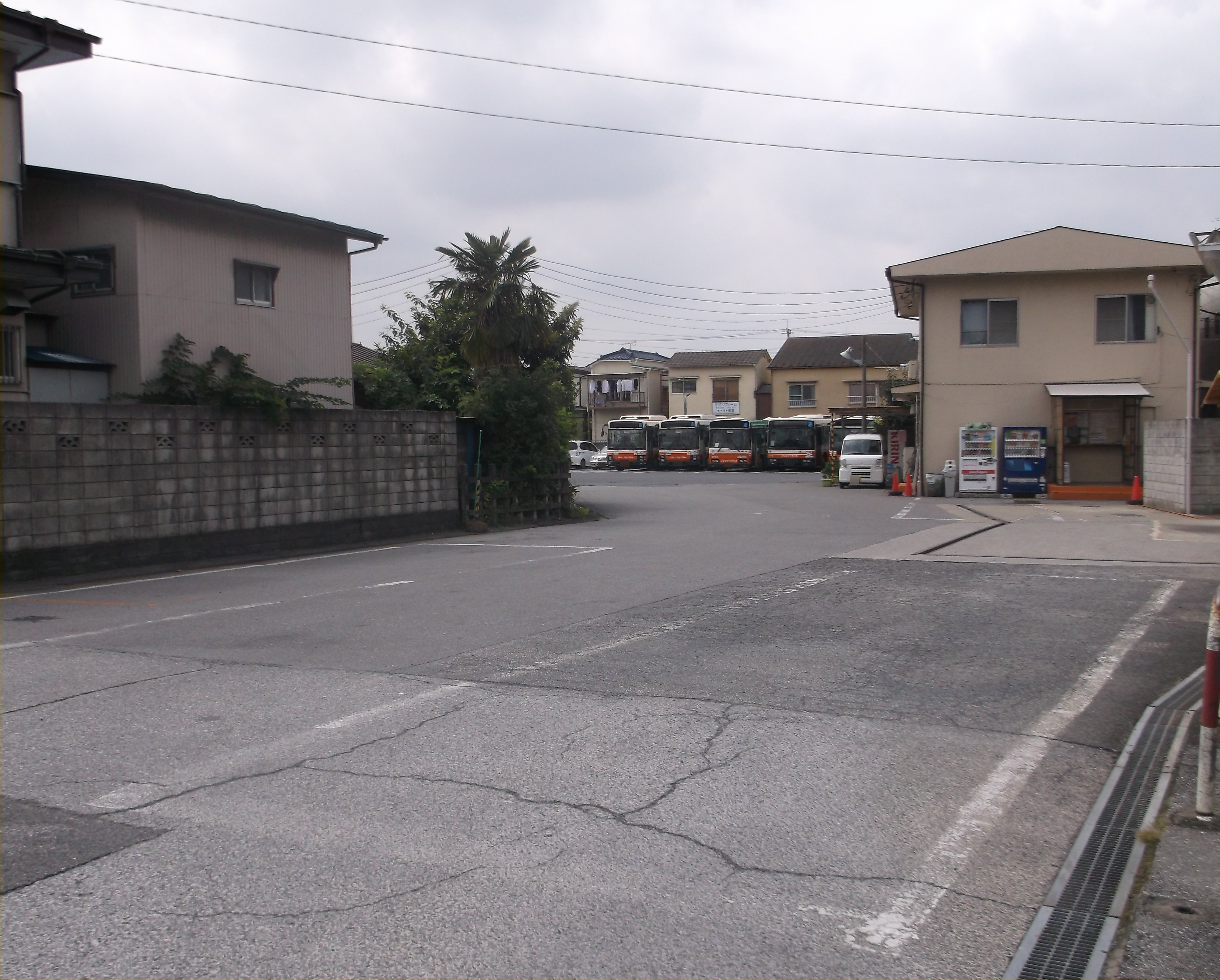 A photo of Tobu Bus Central Hanahata Bus Terminal,Minamihanahata,Adachi-ku,Tokyo,Japan.